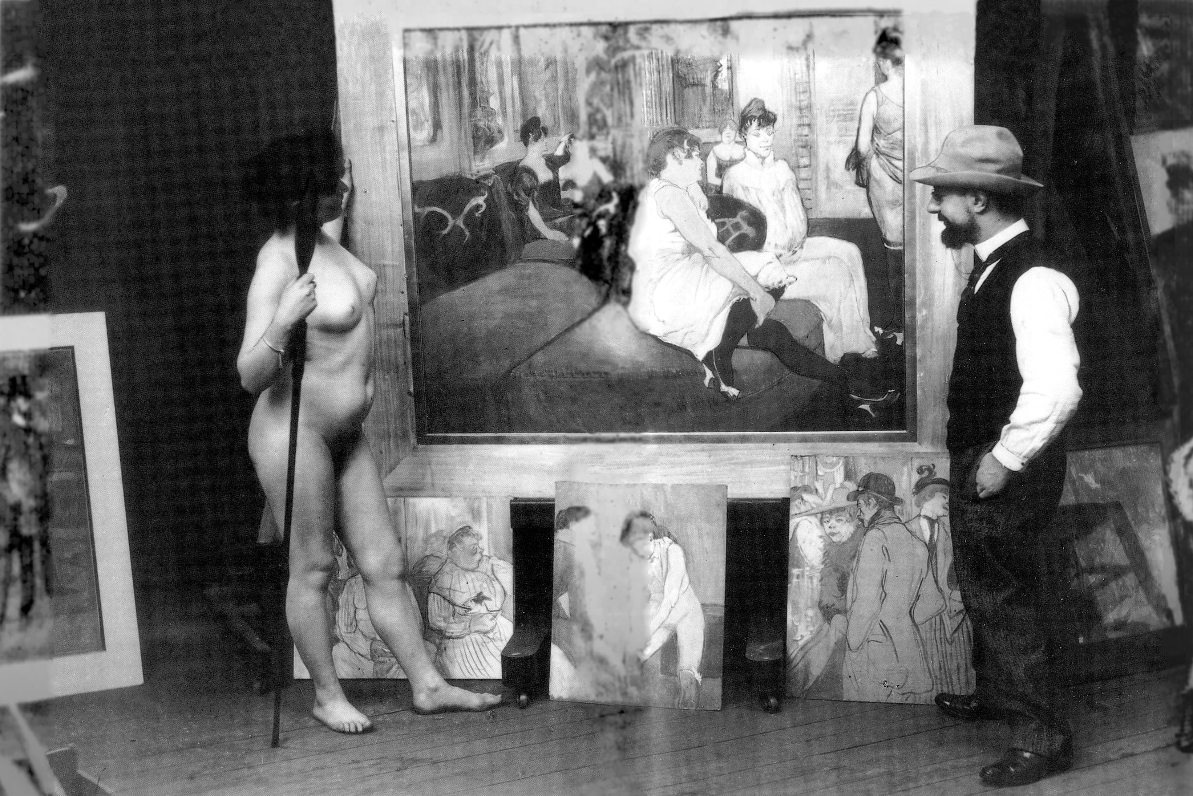 Toulouse-Lautrec in atelier